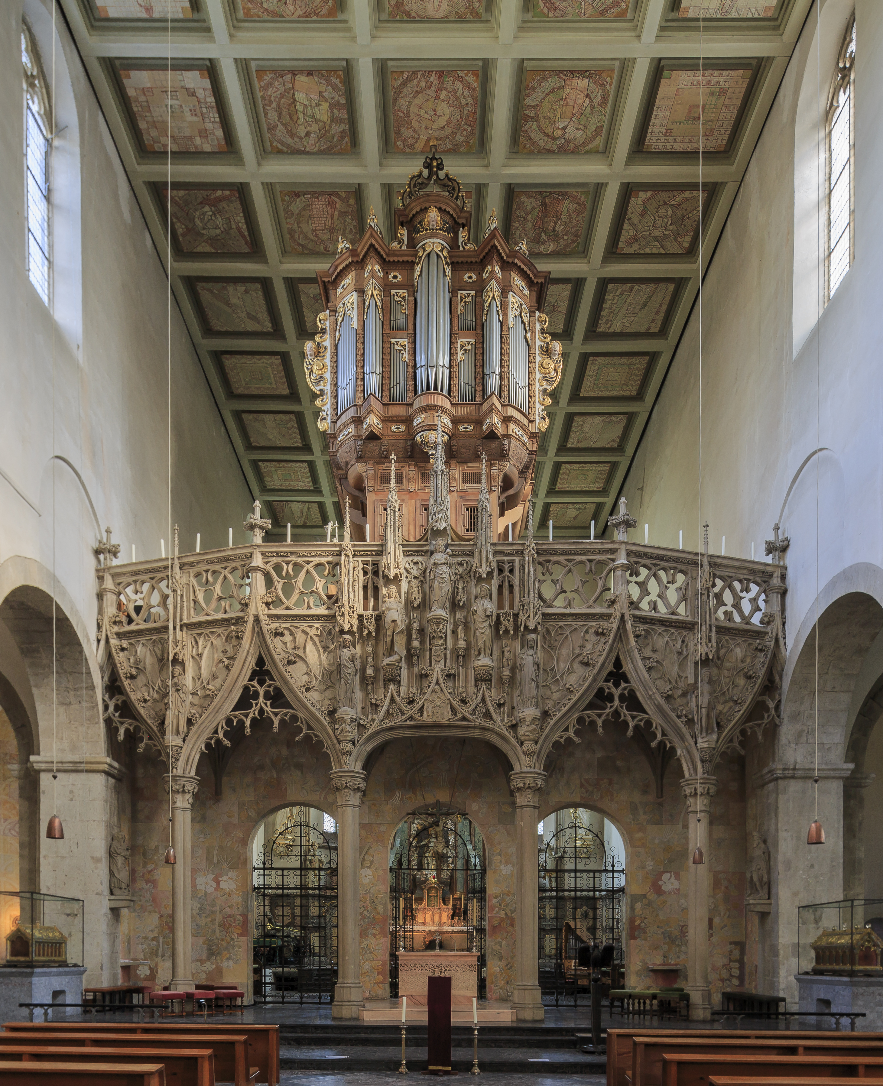 Cologne, Germany: Organ and Lettner of St. Pantaleon